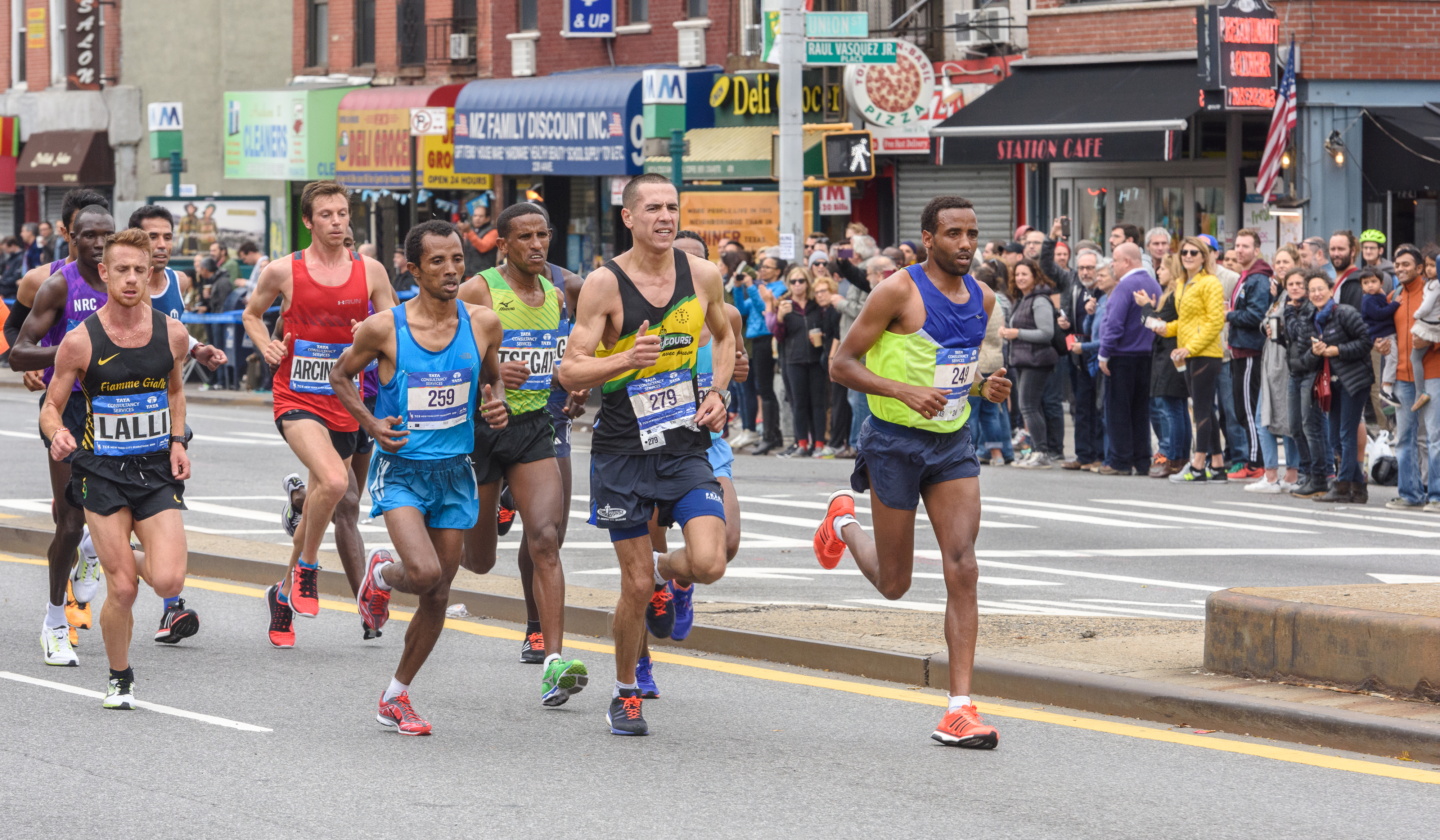 Lead men along Fourth Avenue at Union Street in Brooklyn